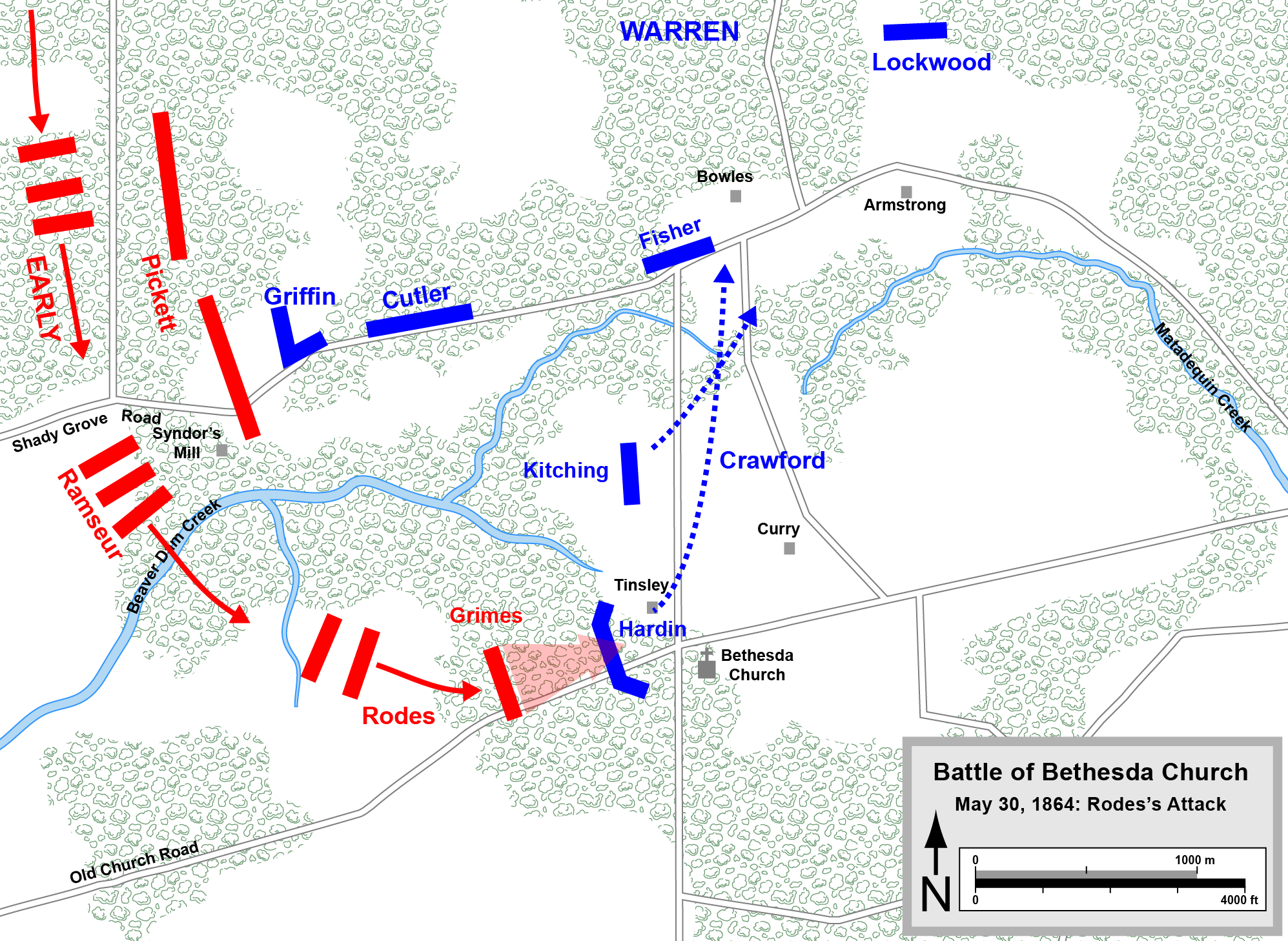 One of two maps of the Battle of Bethesda Church of the American Civil War. Drawn in Adobe Illustrator CS5 by Hal Jespersen. Graphic source file is available at Attribution: Map by Hal Jespersen